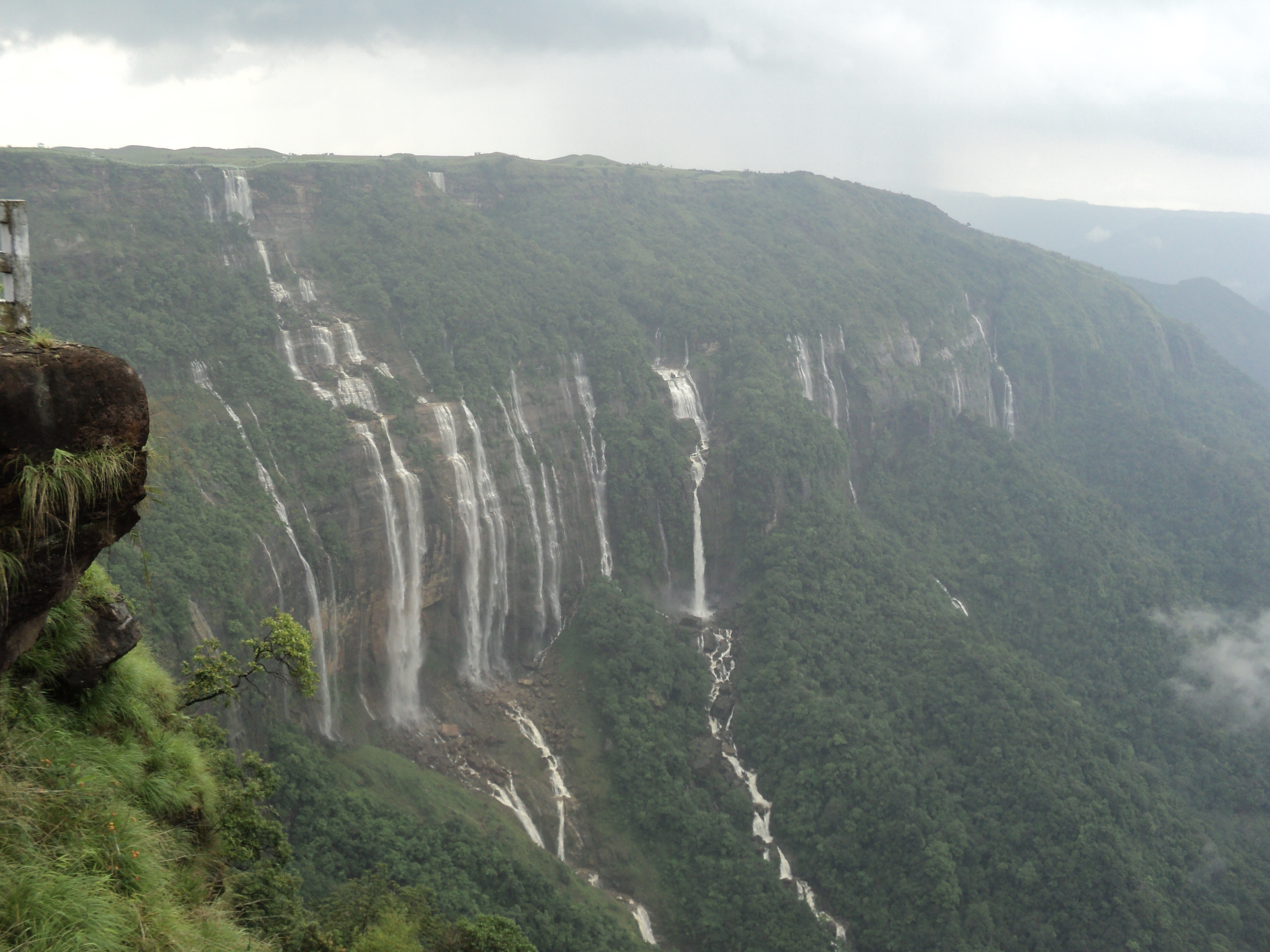 7 Sister Falls Cherrapunji